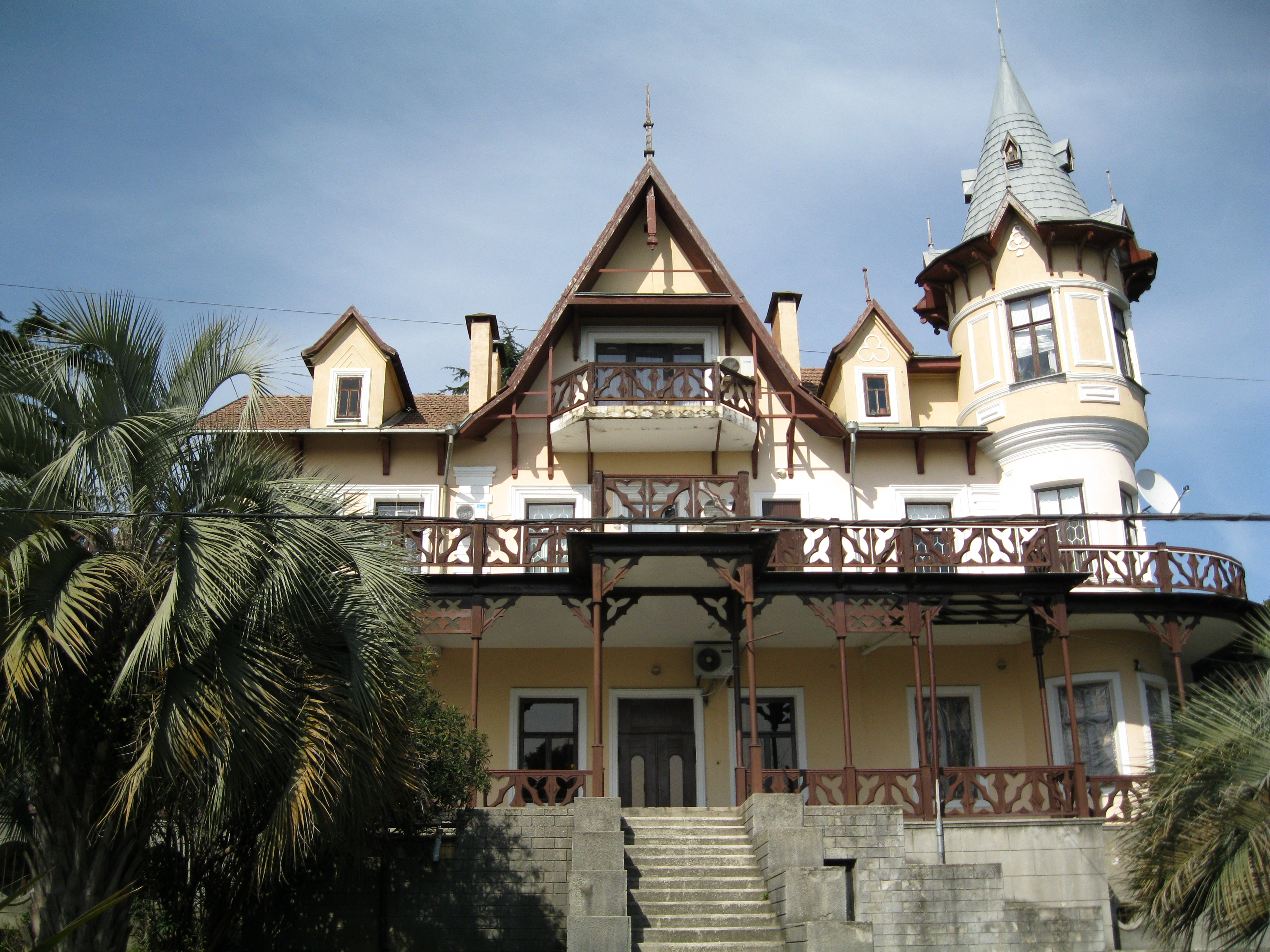 Yakobson house (1902) in Sochi, Russia